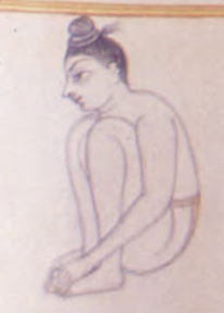 Utkatasana in Sritattvanidhi manuscript by Mummadi Krishnaraja Wodeyar